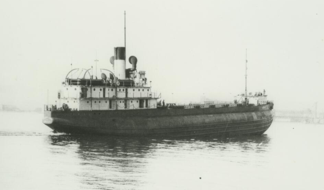 the whaleback Henry Cort showing off her new trunk deck